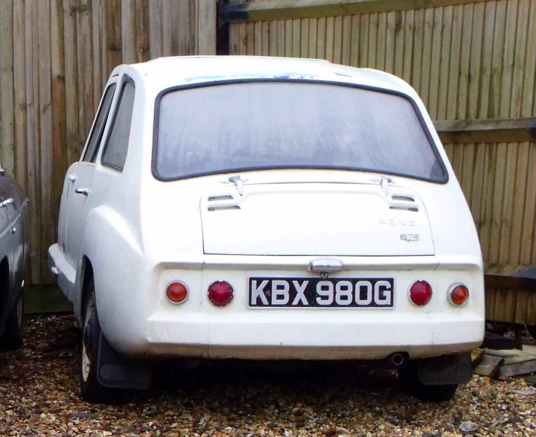 A late sixties three wheeler.